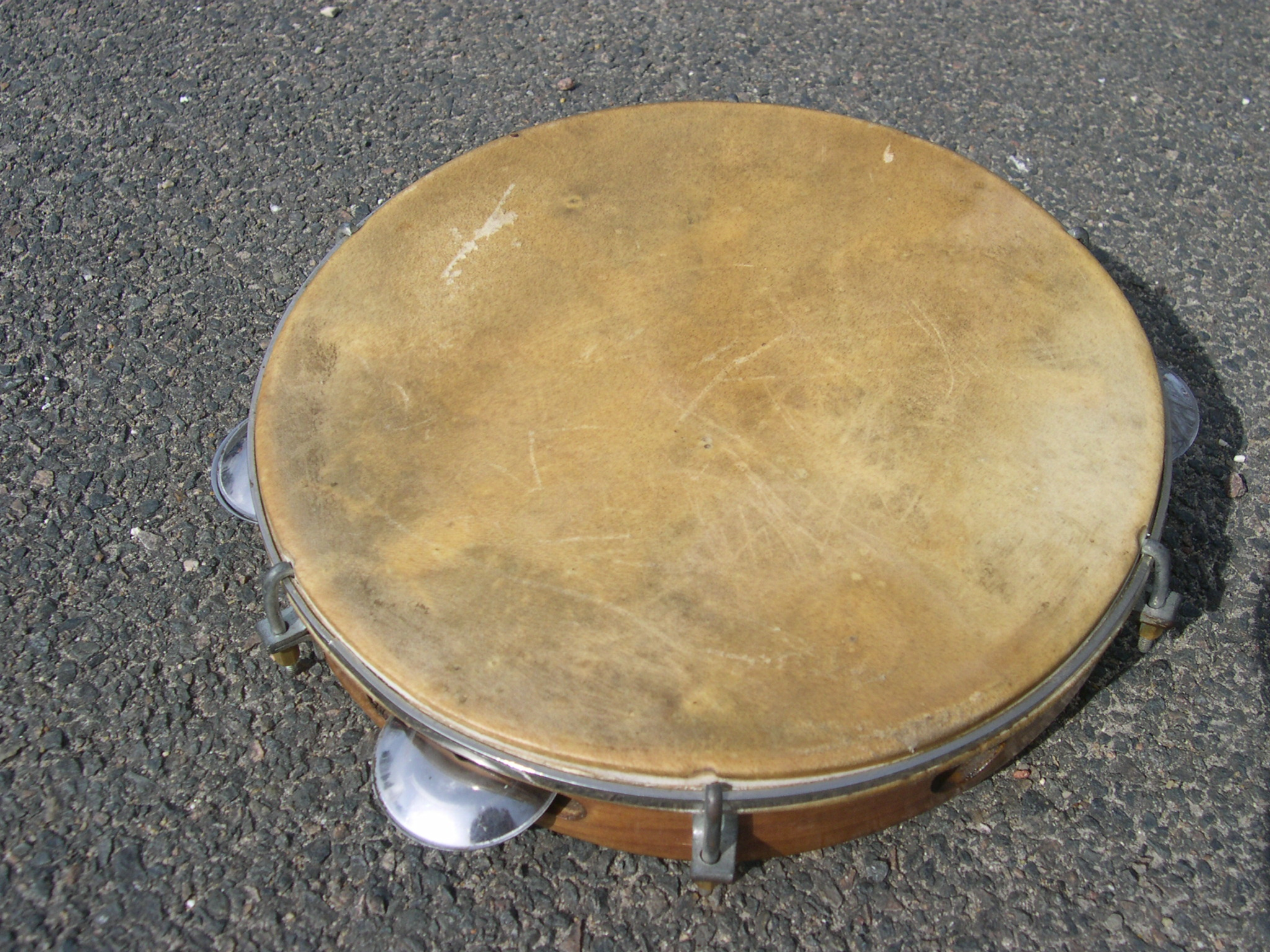 Pandeiro.